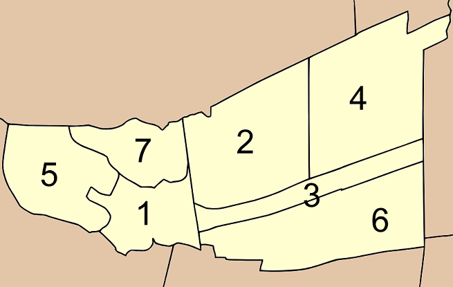 Map of the province Pathum Thani with the districts (Amphoe) numbered. Mueang Pathum Thani Khlong Luang Thanyaburi Nong Suea Lat Lum Kaeo Lam Luk Ka Sam Khok